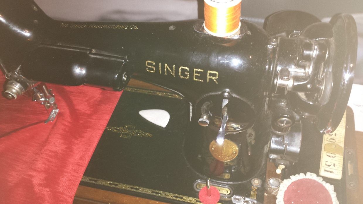 This is the actual sewing machine used by Kate Winslett in the movie "The Dressmaker". It is a Singer 201K2 model.